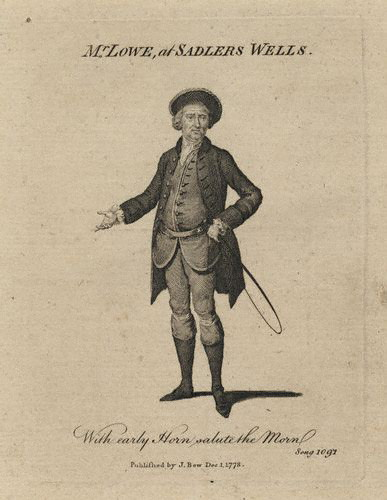 Portrait of british actor and opera singer Thomas Lowe (1719-1783)